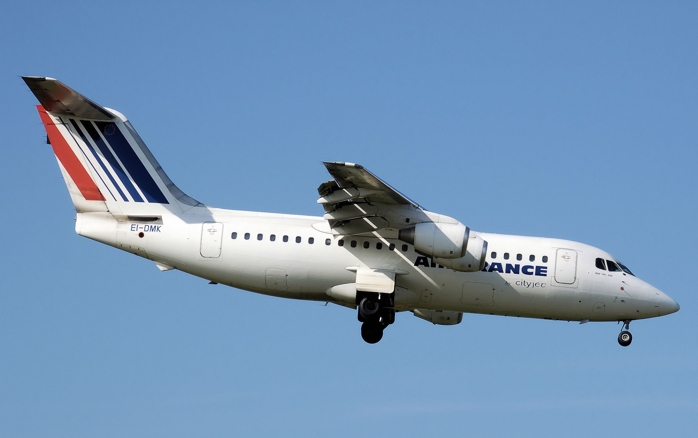 Air France (CityJet) British Aerospace 146-200 lands at Birmingham International Airport, England.